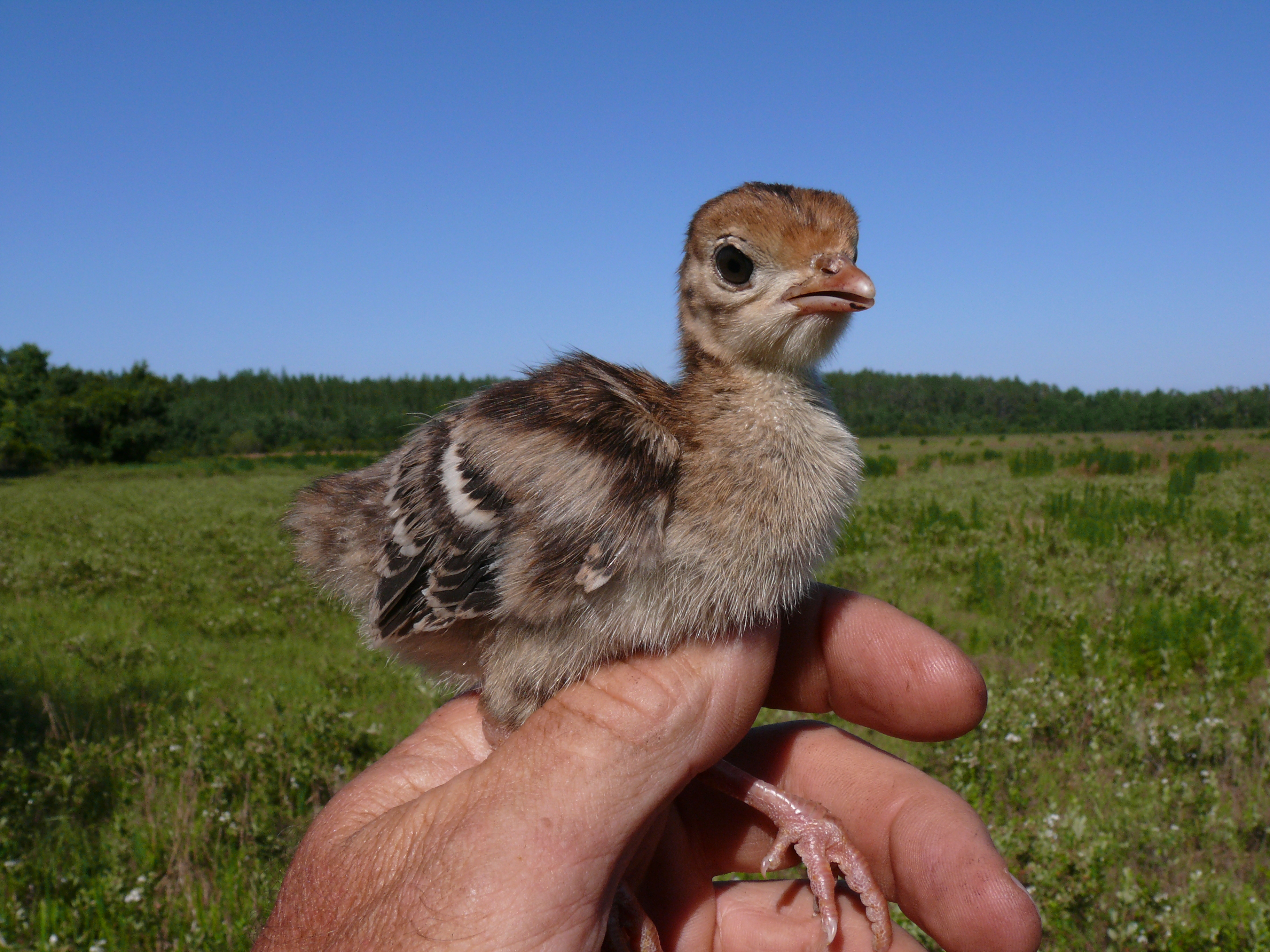 A turkey poult in Florida